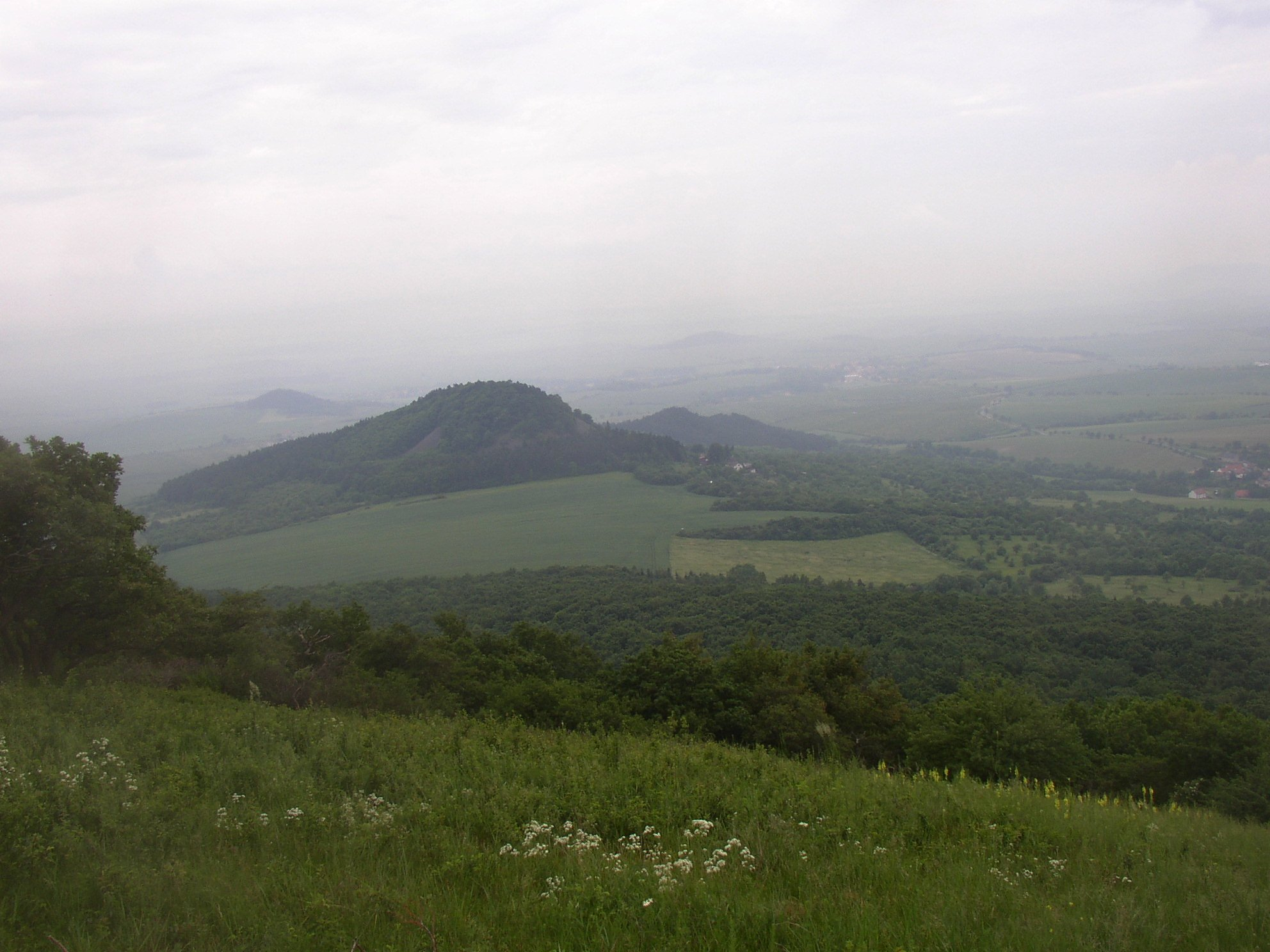 České středhoří, Czech Republic. A view from Solanská hora (638 m) towards Blašenský vrch (520 m) in the south.